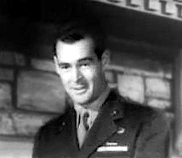 Cropped screenshot of Robert Ryan from the film Marine Raiders